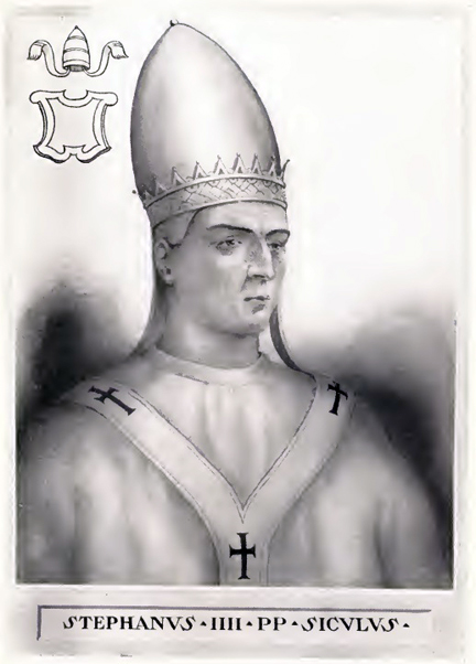 This illustration is from The Lives and Times of the Popes by Chevalier Artaud de Montor, New York: The Catholic Publication Society of America, 1911. It was originally published in 1842. Before Pope-elect Stephen was removed from most lists of popes, Stephen III was referred to as Stephen IV.